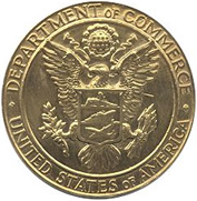 US Dept of Commerce Gold Medal